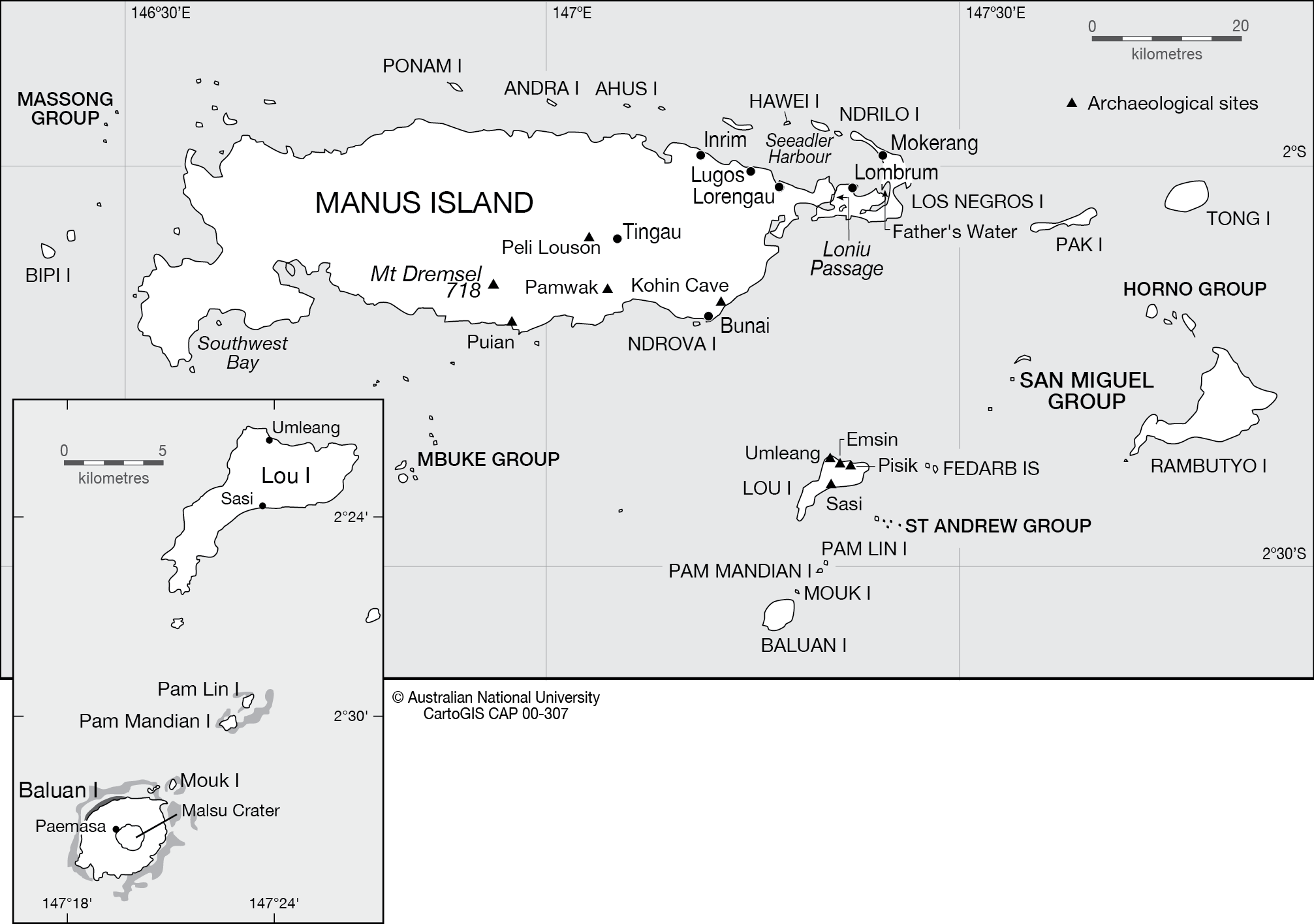 map of the Admiralty Islands, Papua New Guinea, Solomon Sea, Pacific Ocean